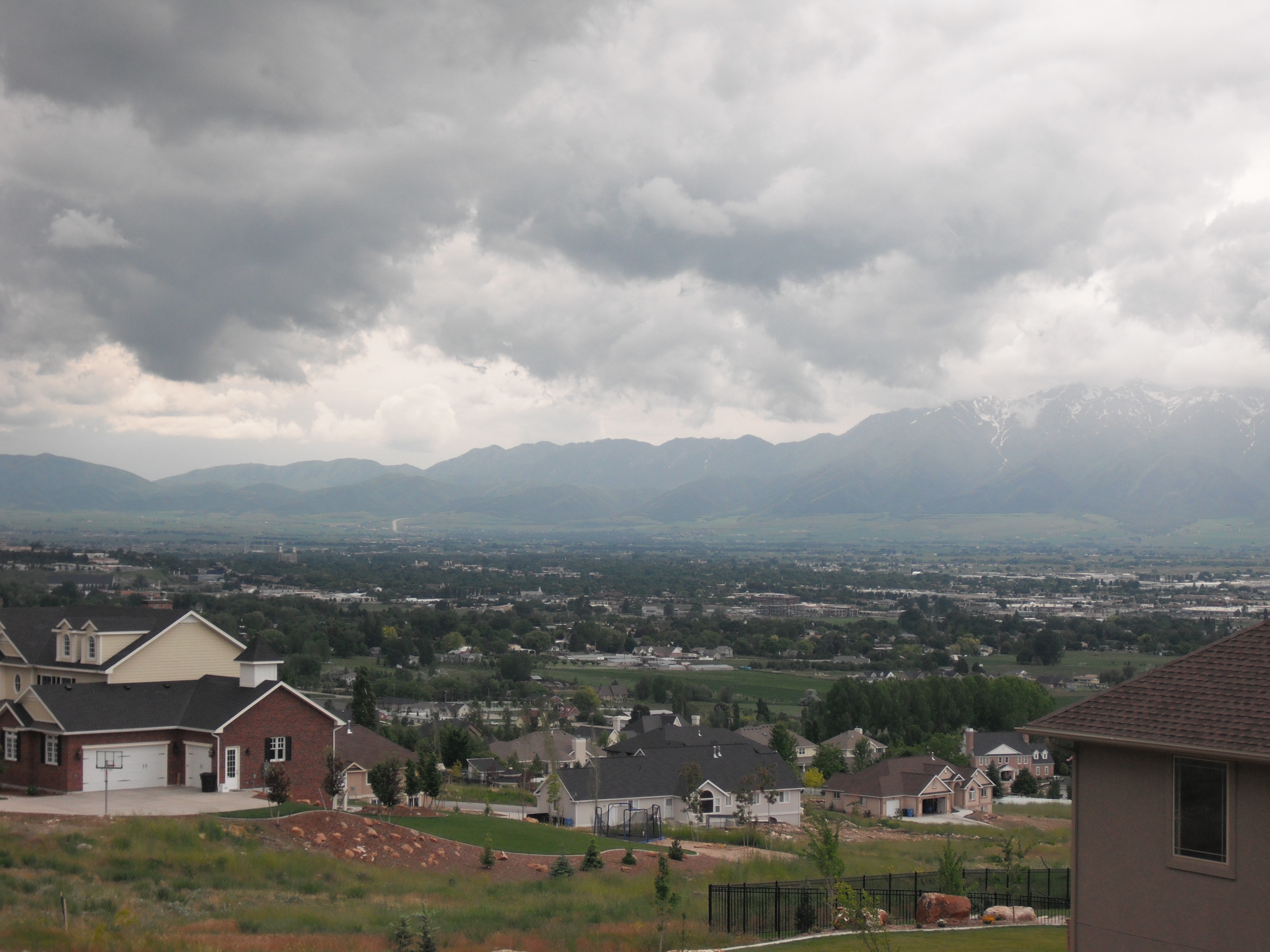 Picture of Cache Valley, Utah, taken from North Logan, and looking over Logan and towards the south part of the Valley; Wellsville Mountains at right.